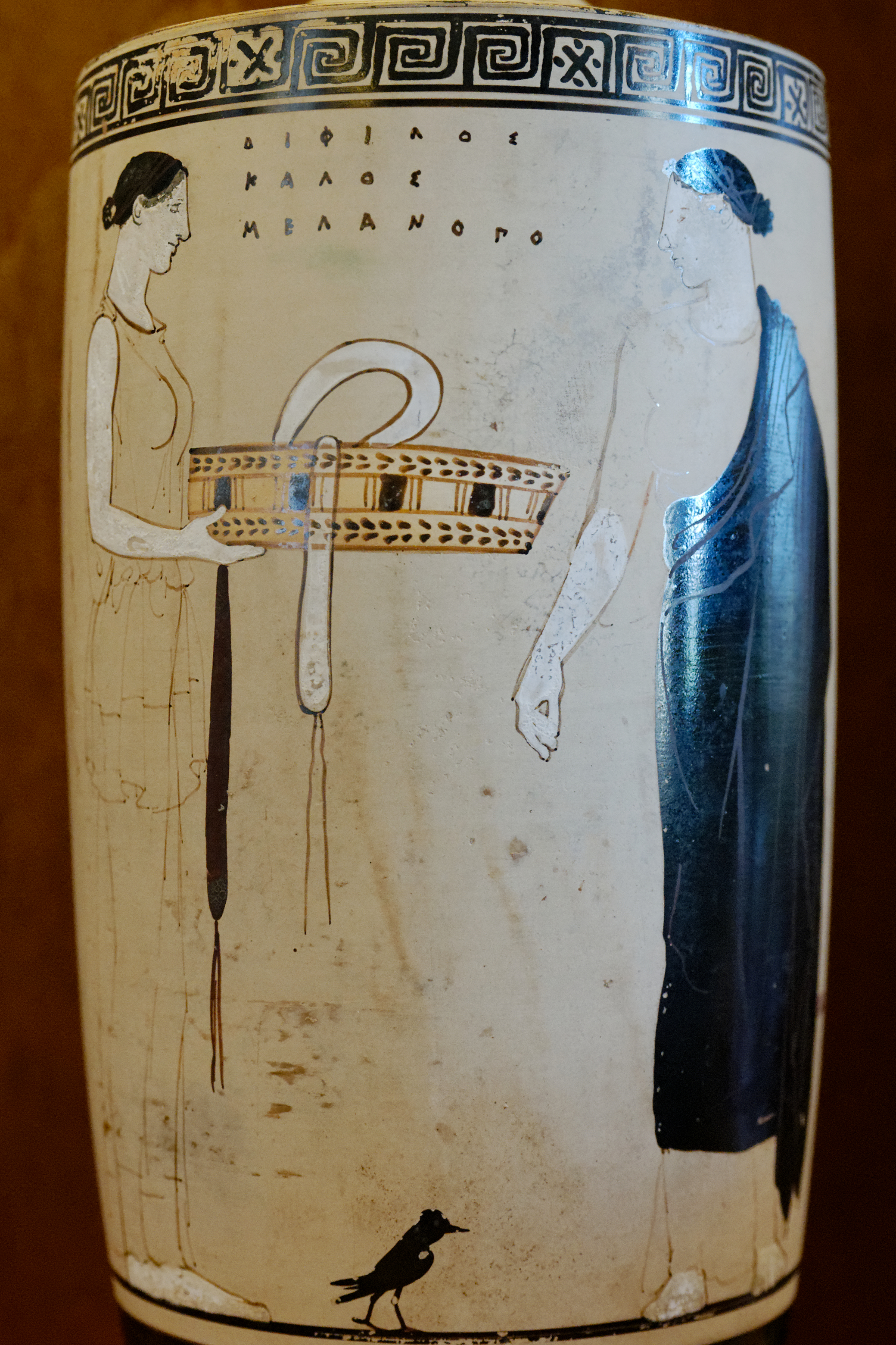 A woman and her maid. Attic white-ground lekythos.